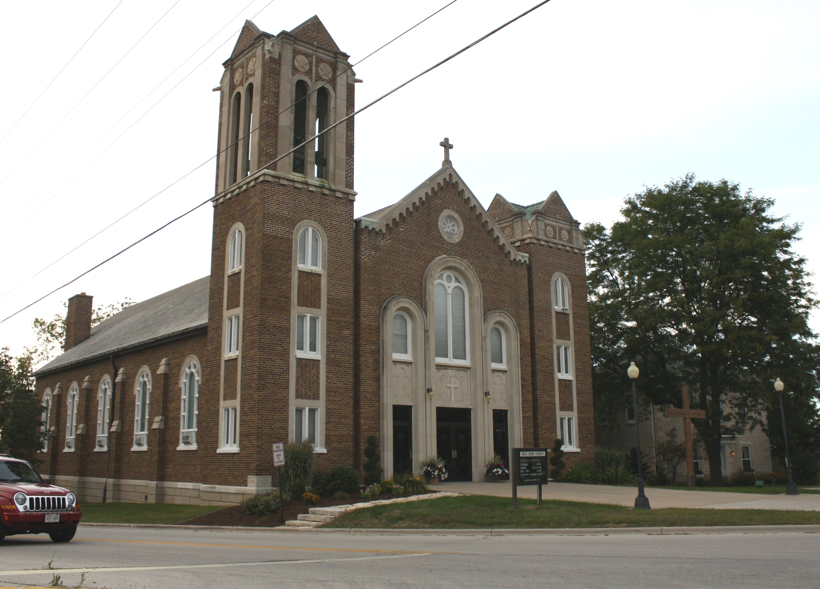 The Holy Cross Church and Convent, a Roman Catholic church in Bay Settlement, Wisconsin. It is listed on the National Register of Historic Places.